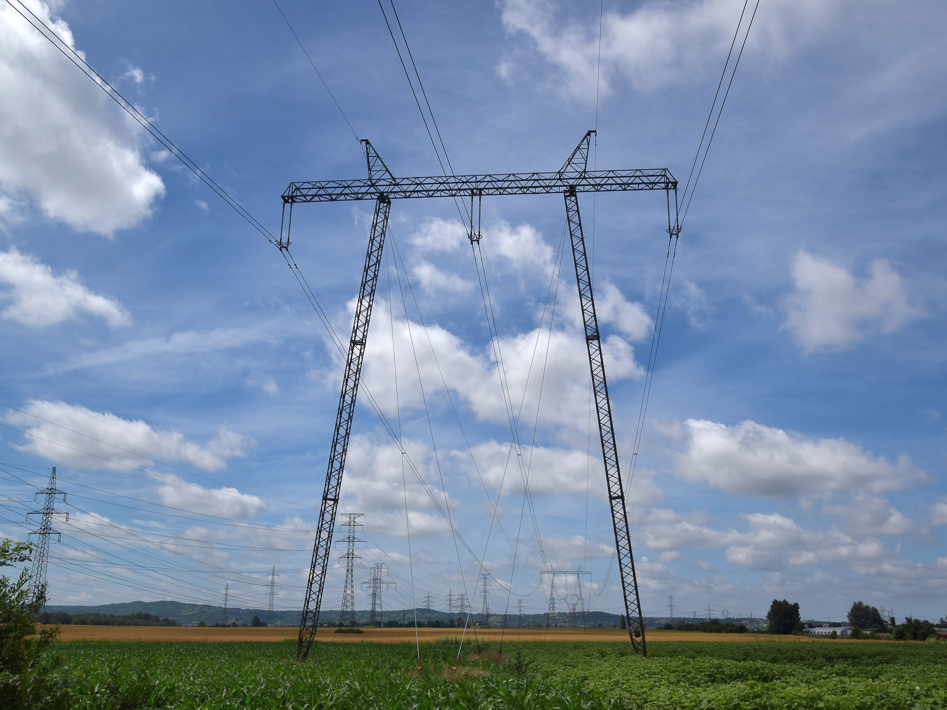 Guyed portal pylon (400 kV) alongside street Sagi Ut, south-east of Győr, Hungary. A version of the H-frame tower but supported by guy wires. This design has non-vertical legs, distinguishing these guyed towers from self-supporting towers in aerial imagery, since the guy wires are too thin to be directly visible in such imagery.